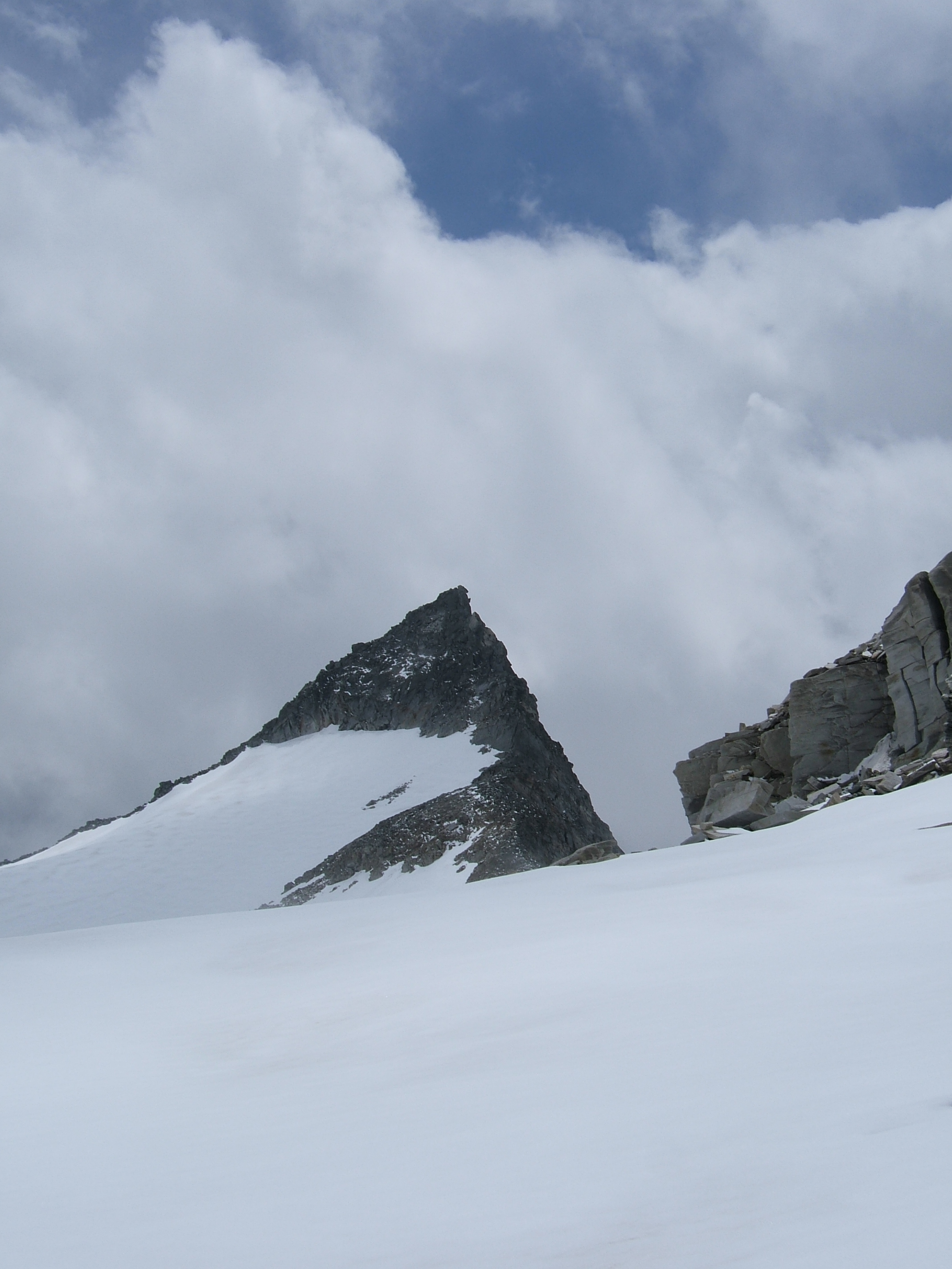 Granatspitze from North, from east slope of Stubacher Sonnblick, Hohe Tauern, Austria